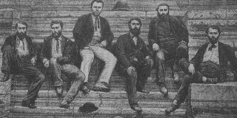 scan by User: Markalexander100 of 1885 engraving of the members of the French Mekong Expedition at Angkor; from Voyage d'exploration en Indo-Chine by Ernest Doudart de Lagrée; from left: Garnier, Delaporte, Joubert, Thorel, de Carne and Lagree